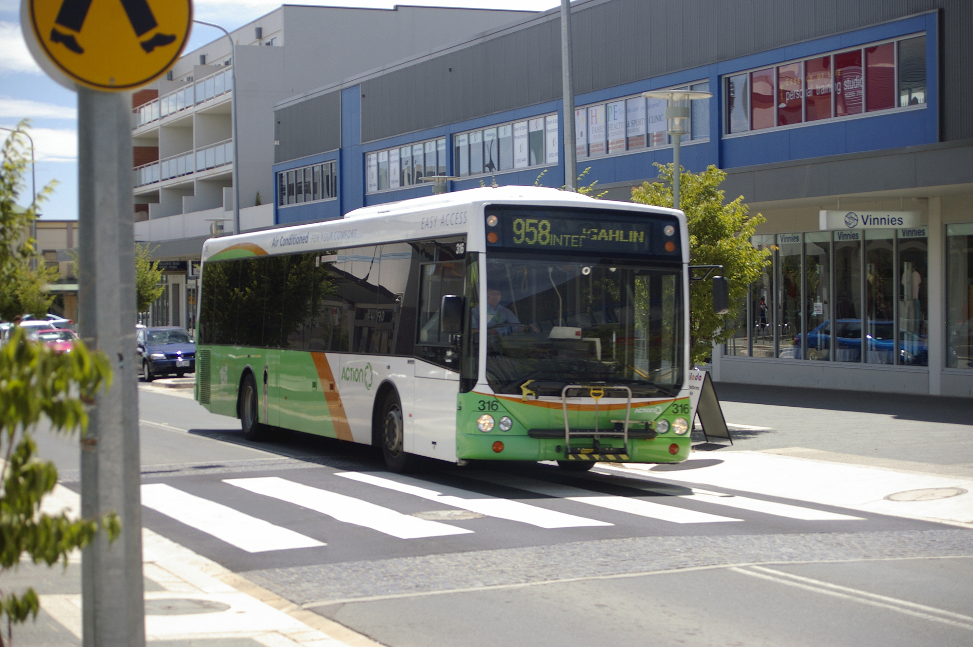 ACTION - 316 - Custom Coaches 'CB60' bodied Irisbus Agoraline in Gungahlin.